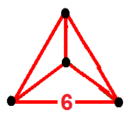 {6,3,3} vertex figure